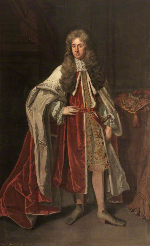 Portrait of George Jeffreys, 1st Baron Jeffreys (1645-1689)